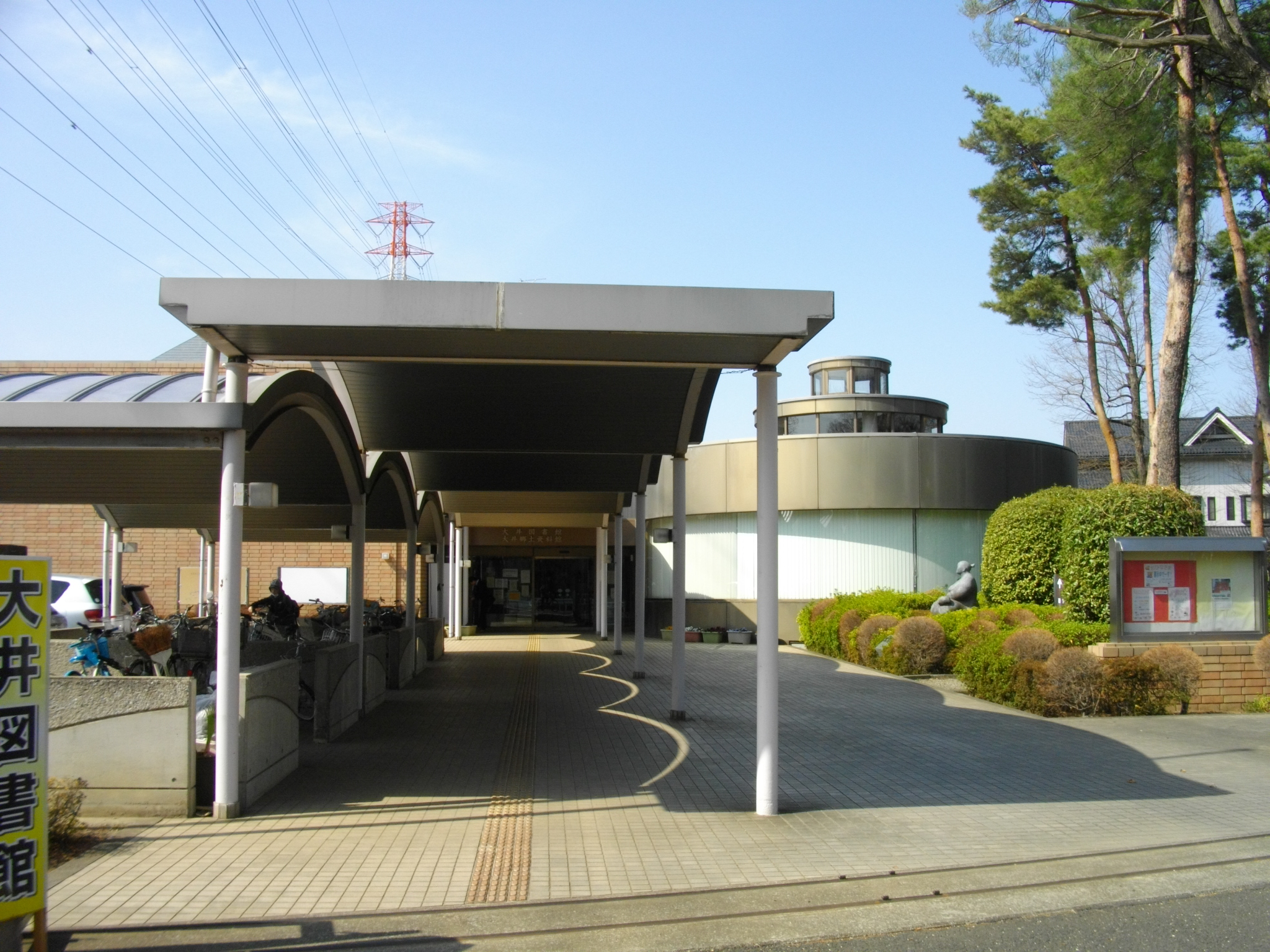 Oi Library and Folk Museum